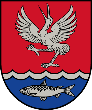 Coat of arms of Engure Municipality, Latvia.